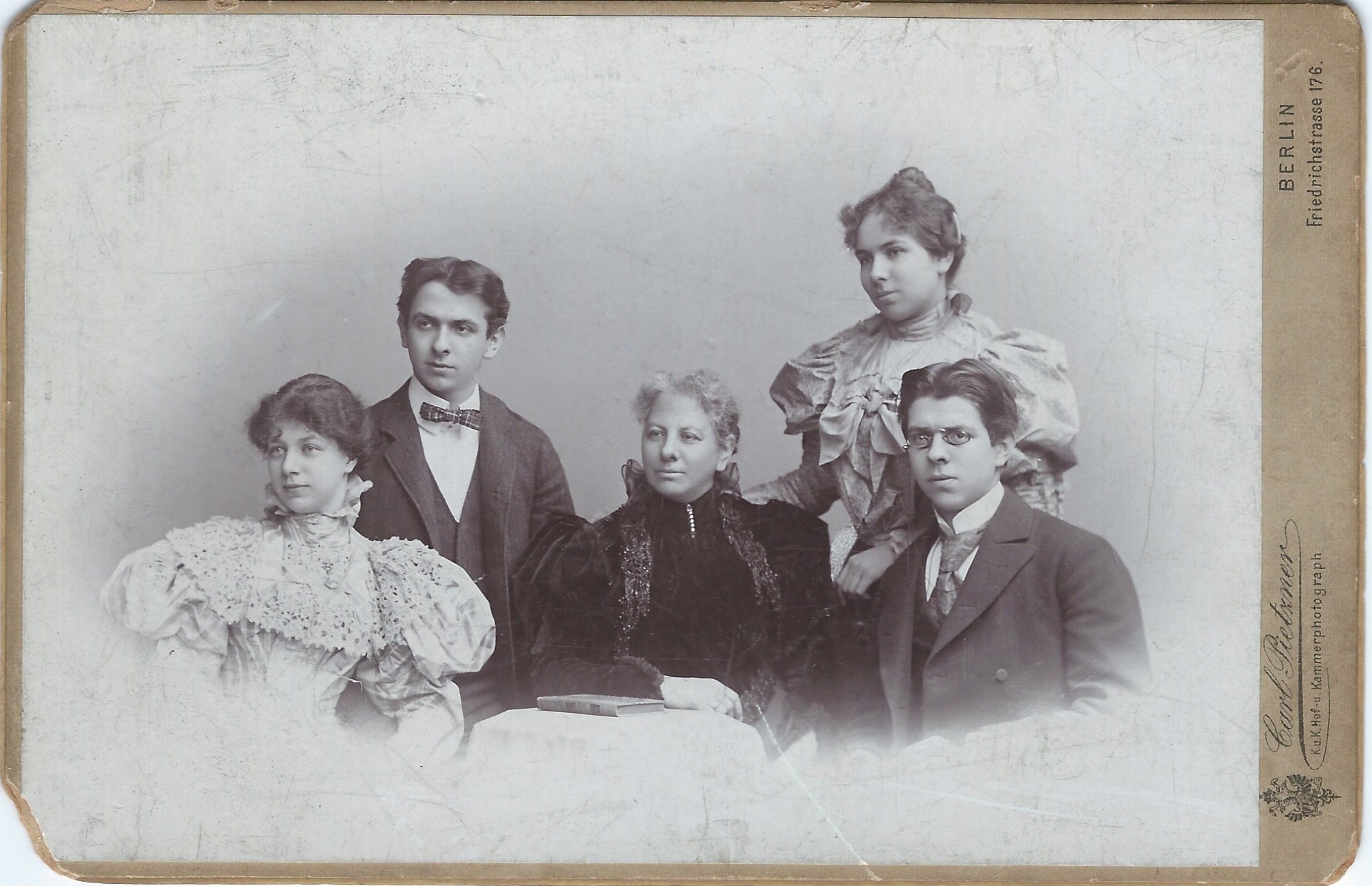 1896, Berlin. From left to right: Antoinette Raster (Brucker), Edwin Otto Raster, Margarethe Raster (Oppenheim), Anna Sophie Hercz (Raster), Walther Berthold Raster. This was taken five years after the patriarch, Chicagoan Hermann Raster (born 1827) passed away in 1891.